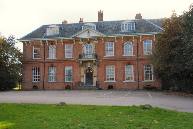 Balls Park The mansion was built in 1640. It became a teachers training college from 1947 until 1979 and then a business school until 2003. The building and grounds have been used for the television series Foyle's War in 2004 and the BBC production of Bleak House in 2006.